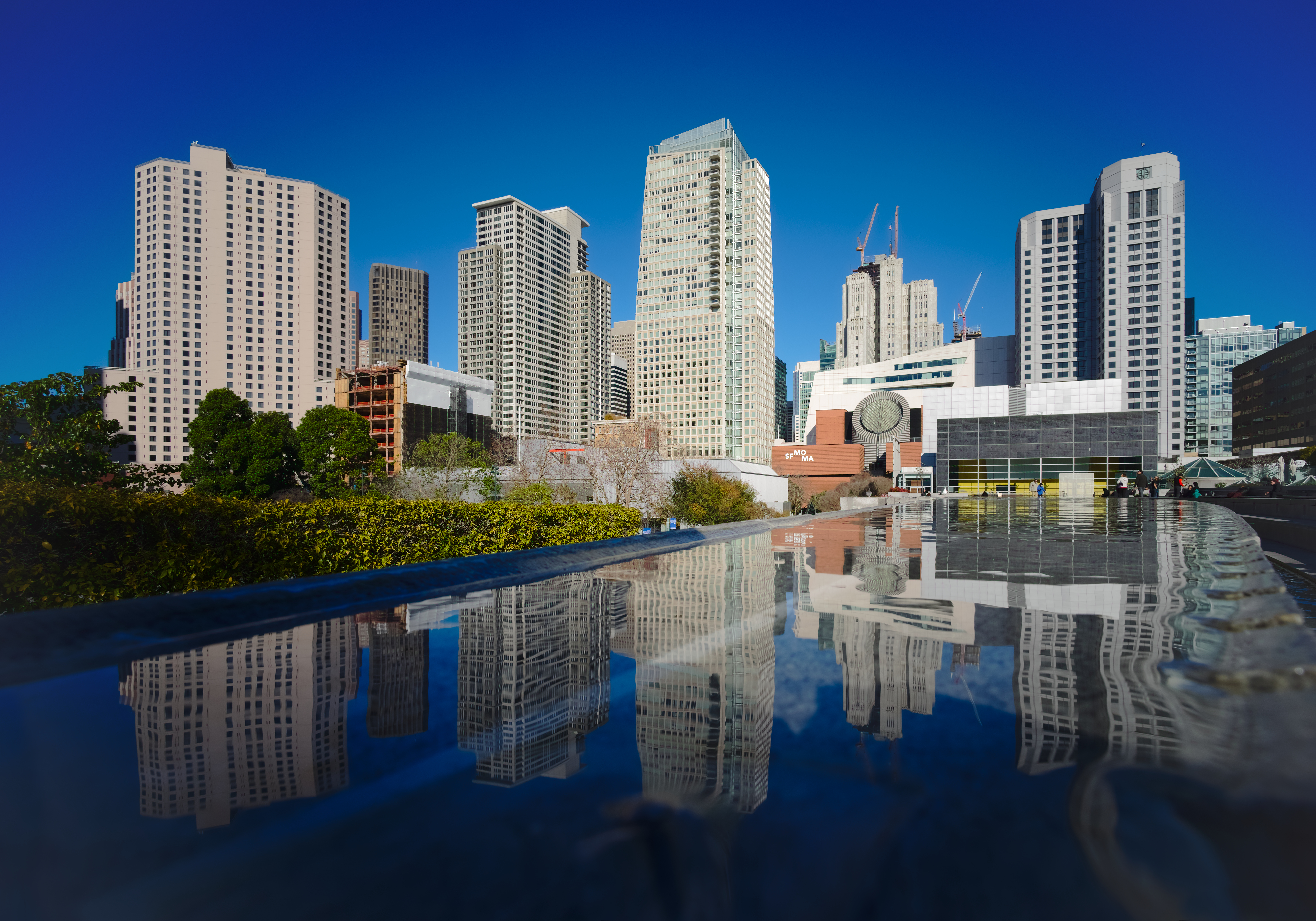 Some skyscrapers in San Francisco as seen over a fountain in Yerba Buena Gardens.